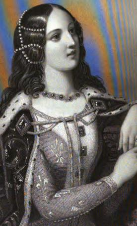 Isabelle de Valois